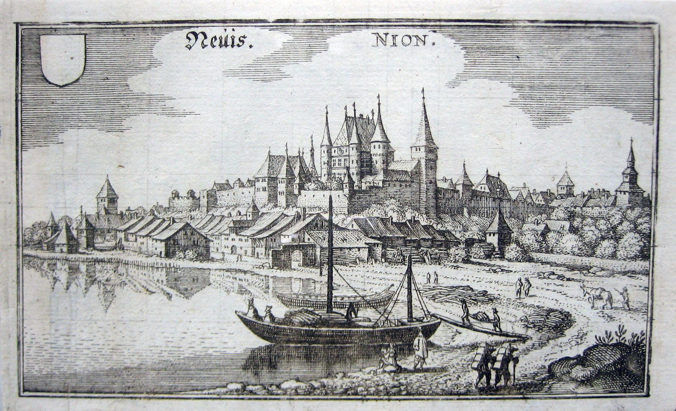 View of Nyon.